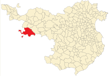 Les Lloses